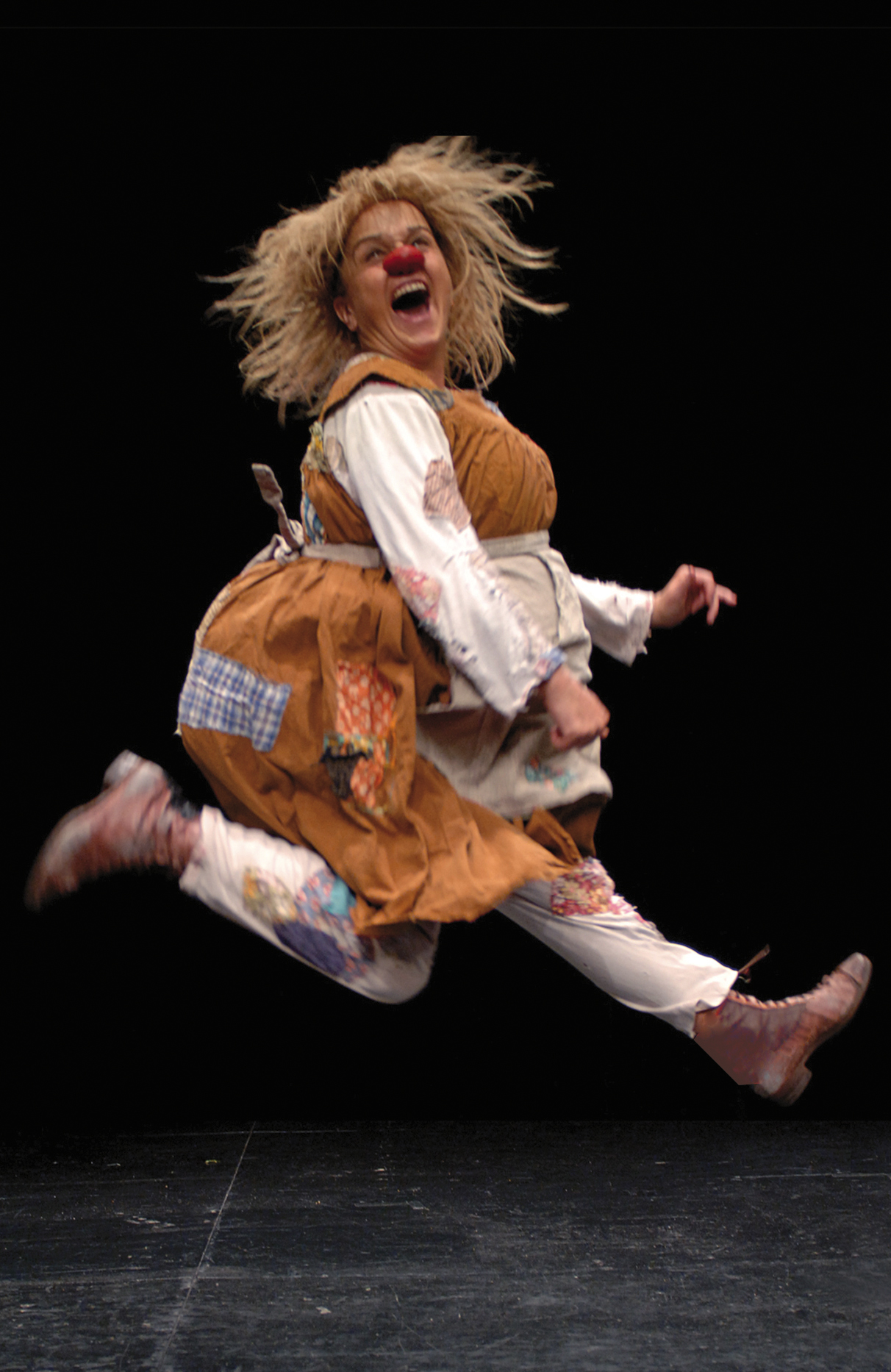 Swiss artist and clown Gardi Hutter on the stage as Jeanne d'ArPpo